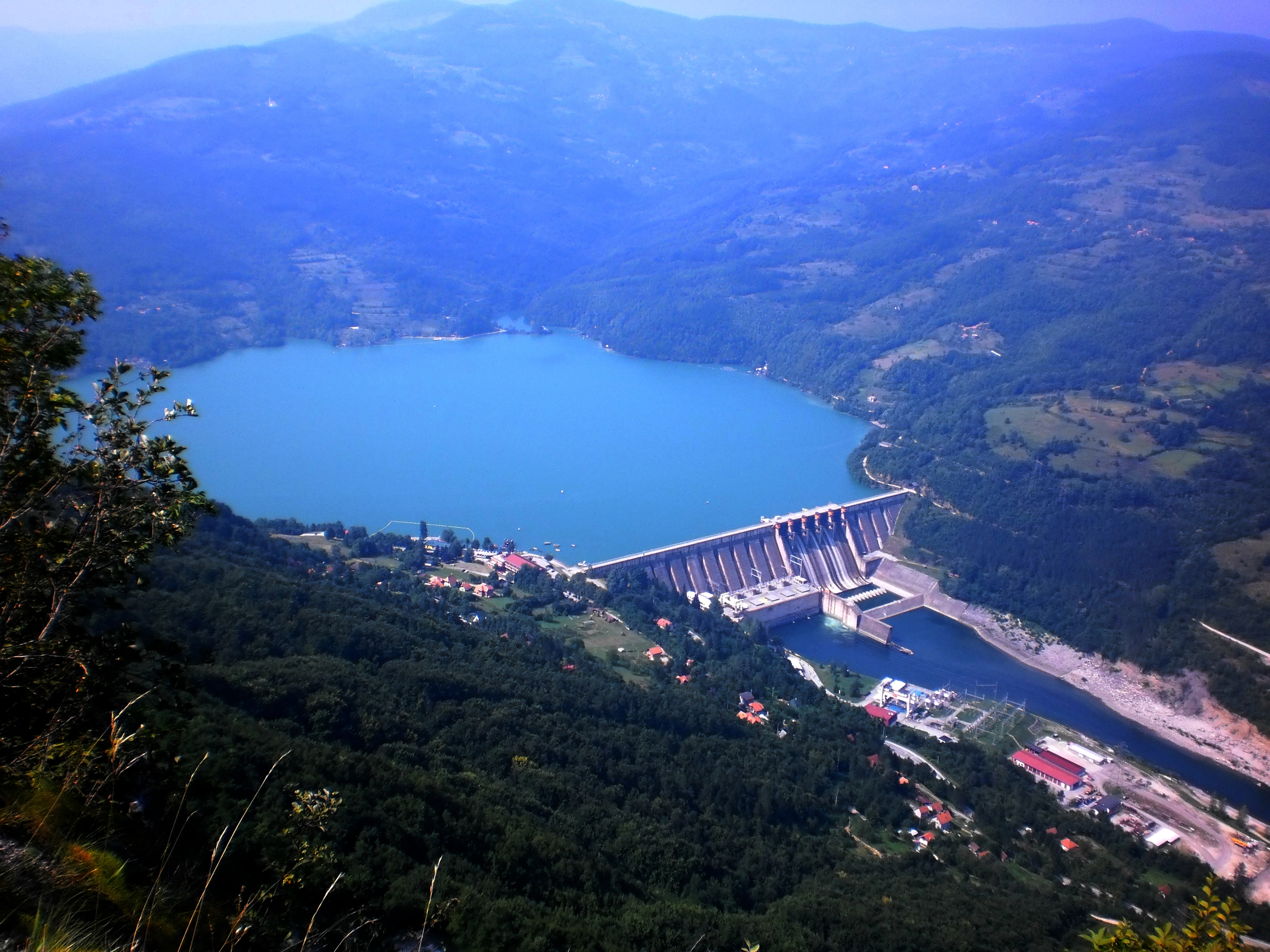 Artificial lake Perucac, Tara